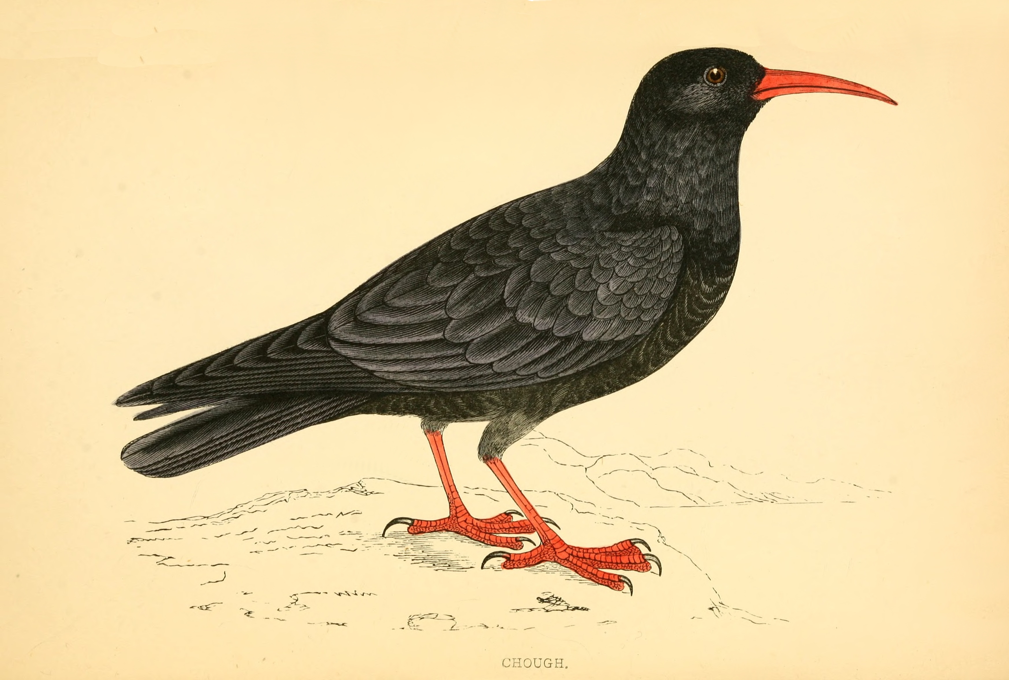 Illustration of a Red-billed Chough taken from; Rev. Francis Orpen Morris (1864) A History of British Birds. Volume 2, Groombridge and Sons, Paternoster Way, London, pp. 27